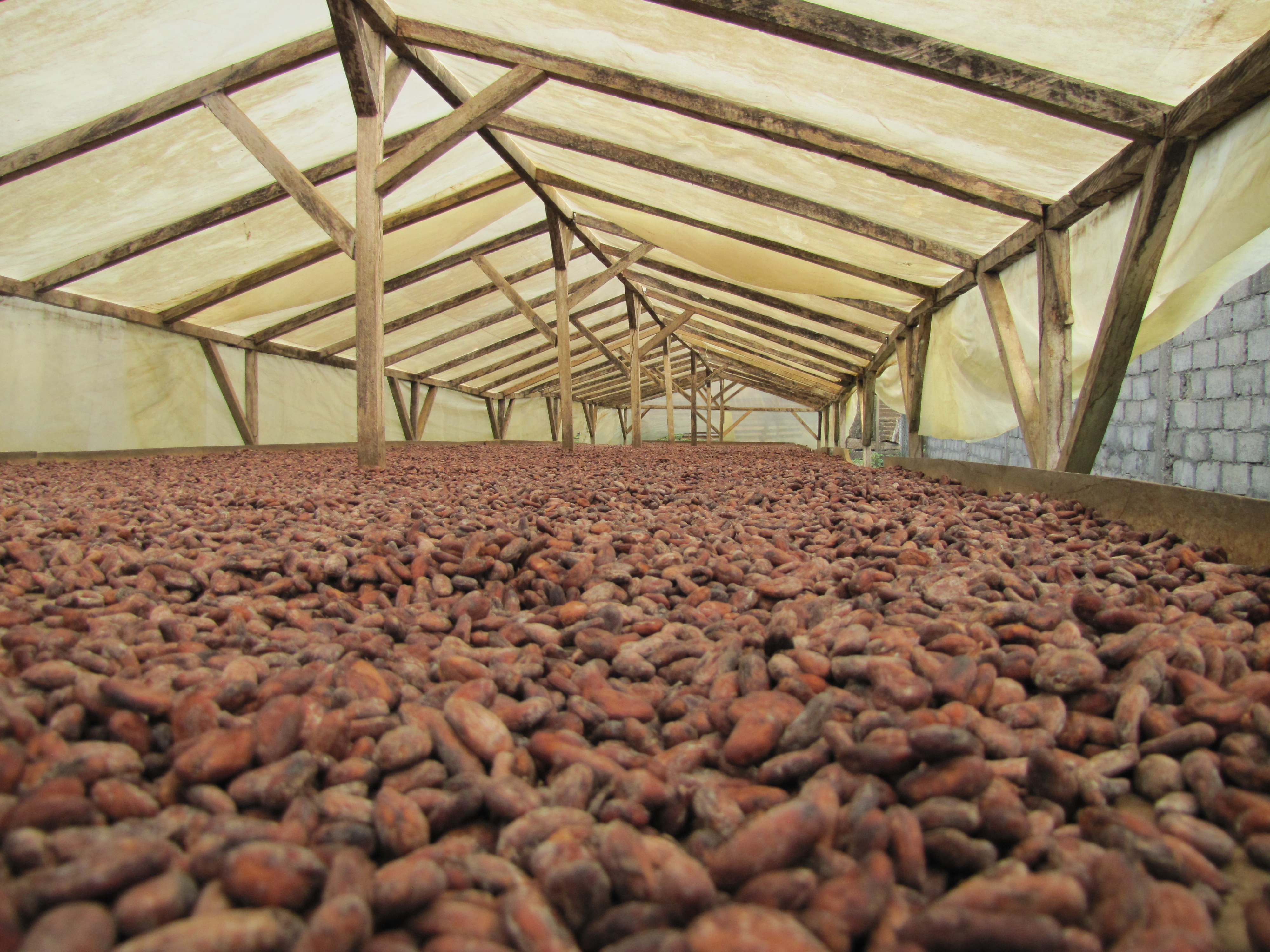 Sao Tome Monteforte Cocoa Beans Drying 3